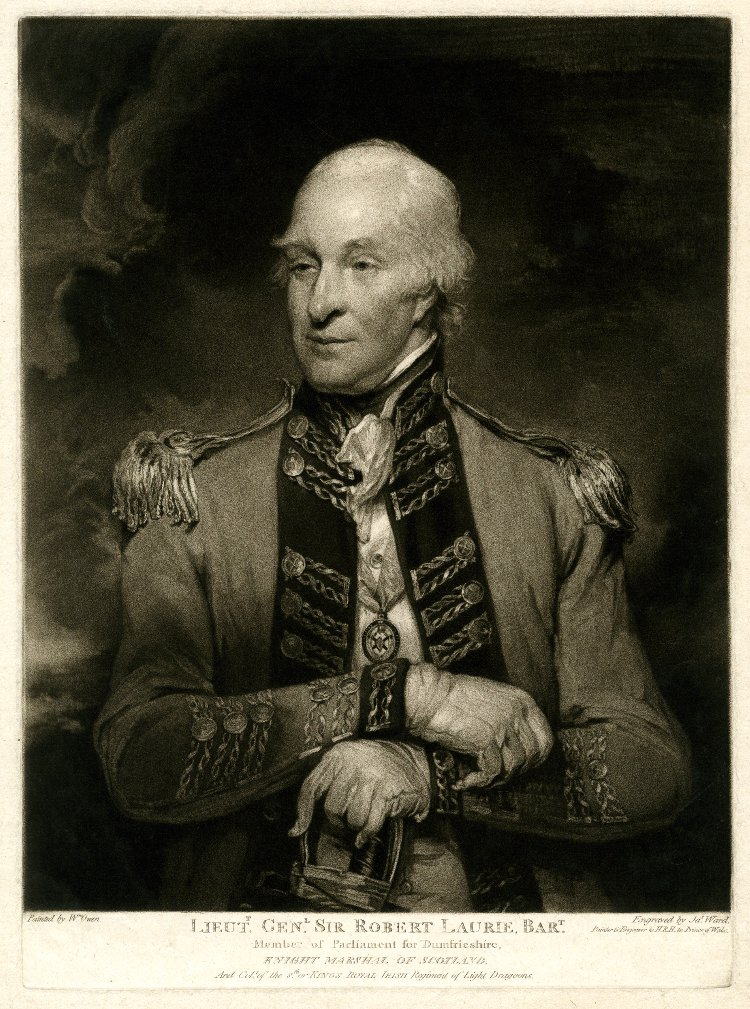 Portrait of Sir Robert Laurie, 5th Baronet, (c.1738–1804), Scottish soldier and politician. Mezzotint.